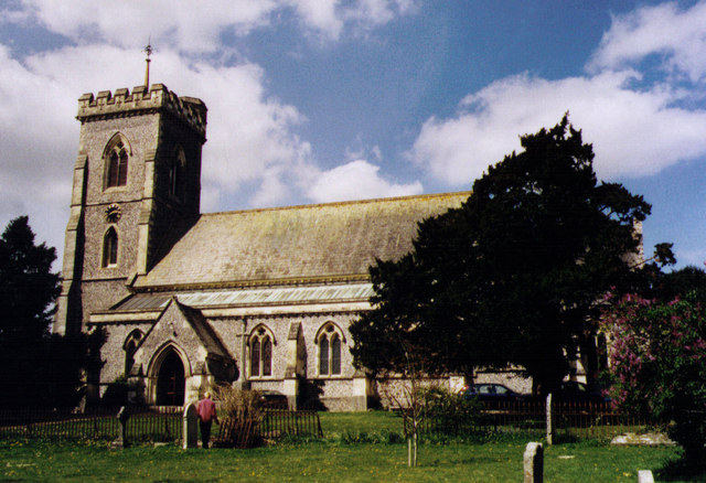 St John the Evangelist, West Meon Grade 2 listed building erected in 1843.